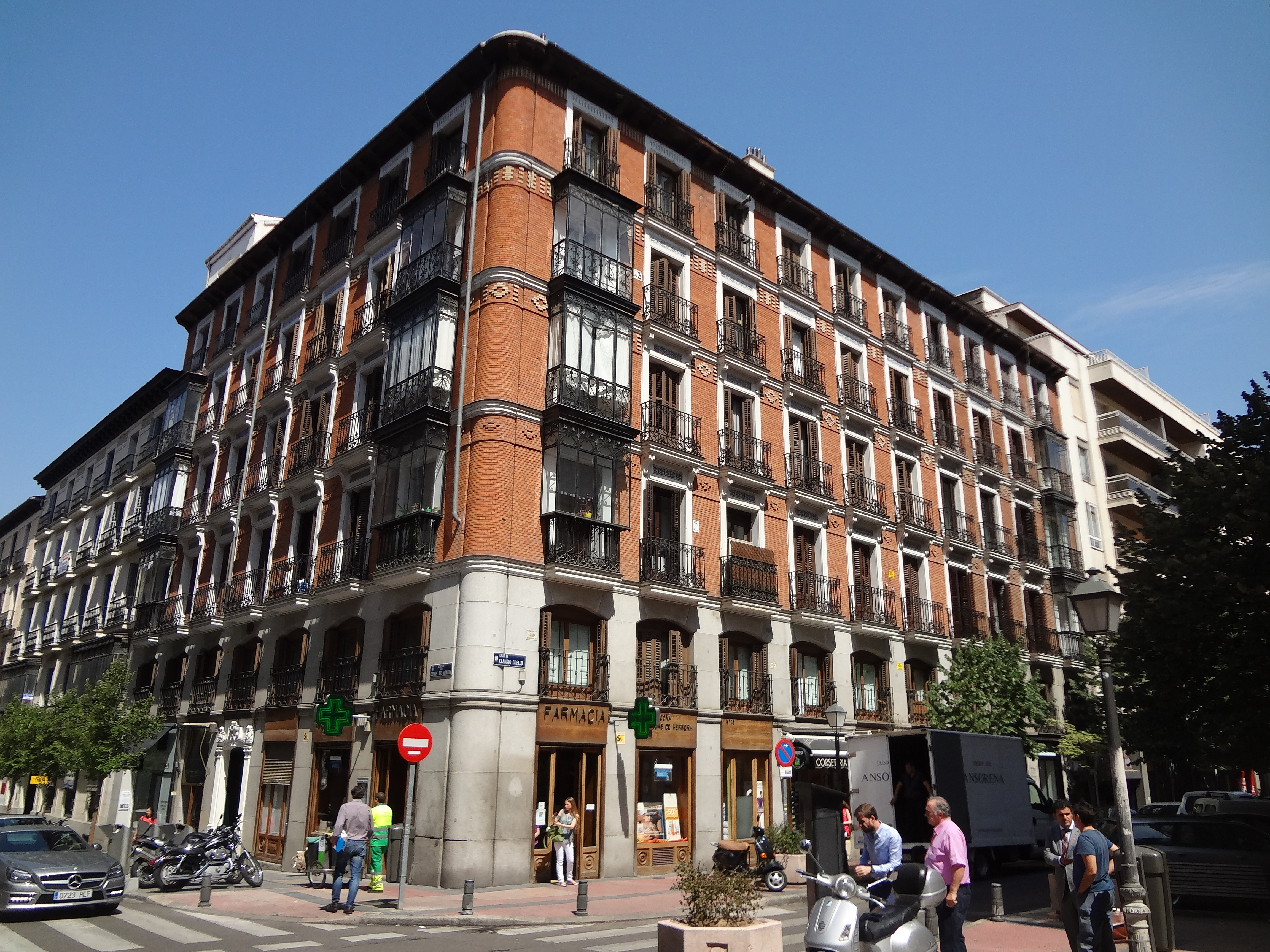 Brick Building, Barrio de Salamanca Madrid, Spain